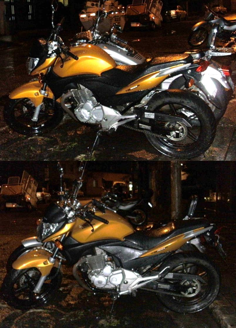 Honda CB 300 R